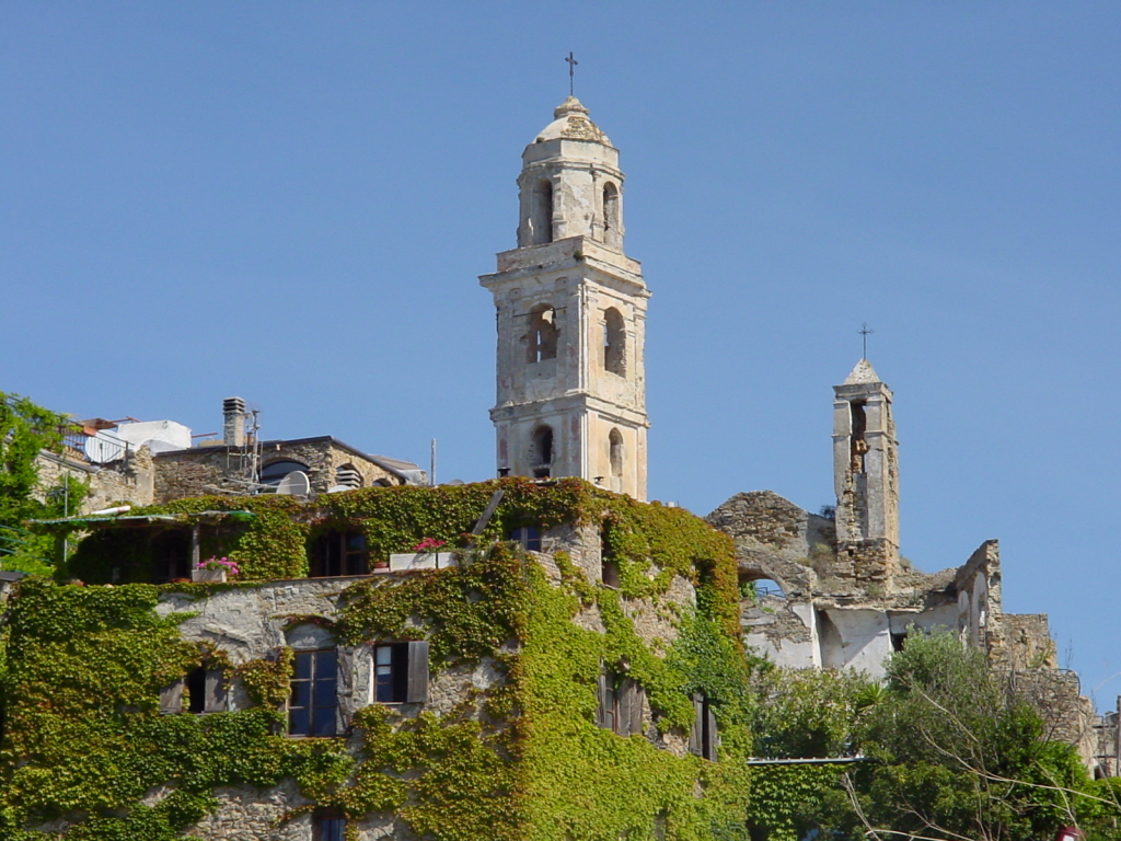 Bell tower of old Sant'Egidio Church